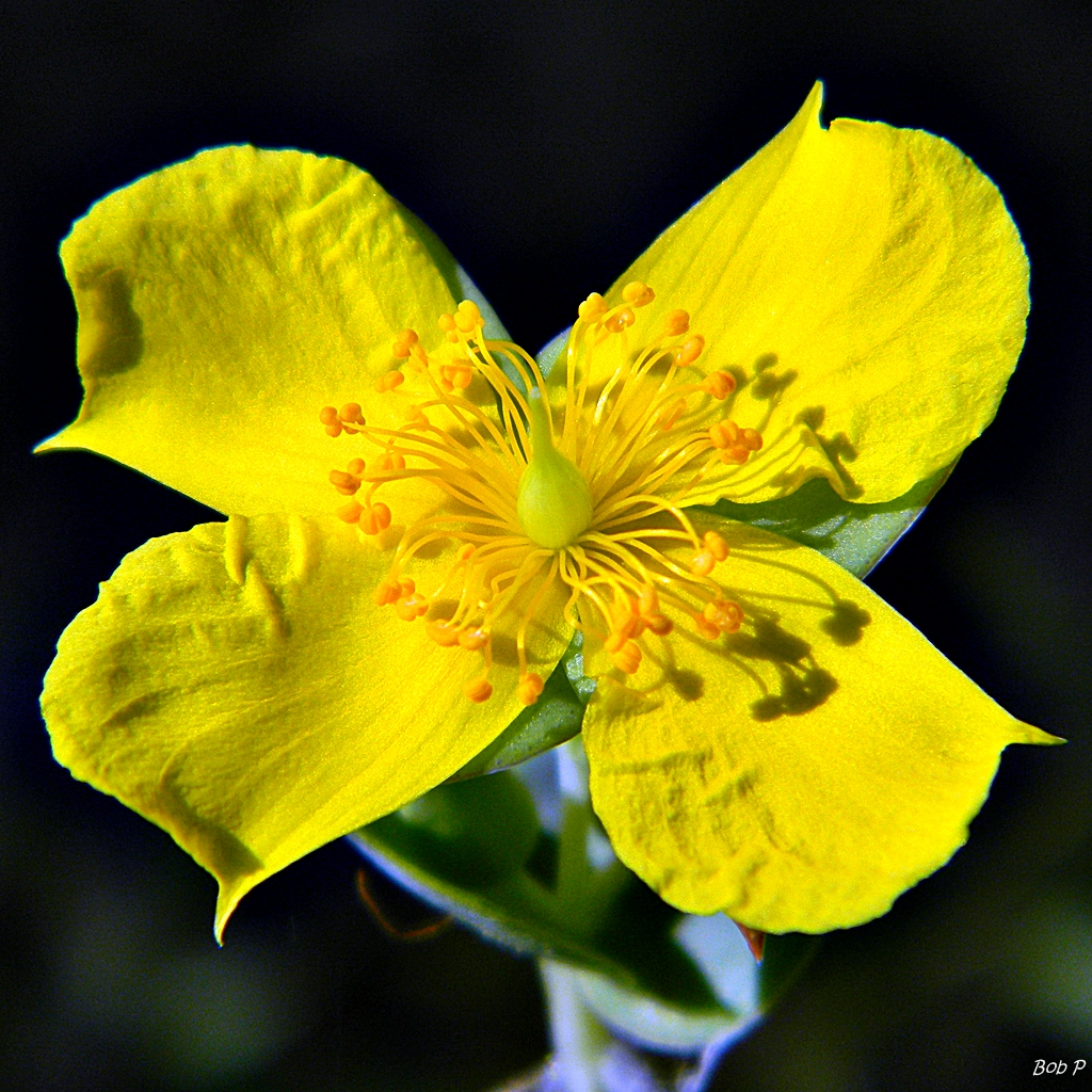 Morning sunlight in some piney woods at Frenchman's Forest Natural Area, Palm Beach County. The Hypericum have a long history of medicinal uses by humans. They are usually placed in the family Clusiaceae but are sometimes recognized as being in their own unique family, the Hypericaceae. We have at least 12 species in southern Florida and I love them all! I wish this flower was 10 inches across with anthers the size of golf balls, but it's actually quite small.